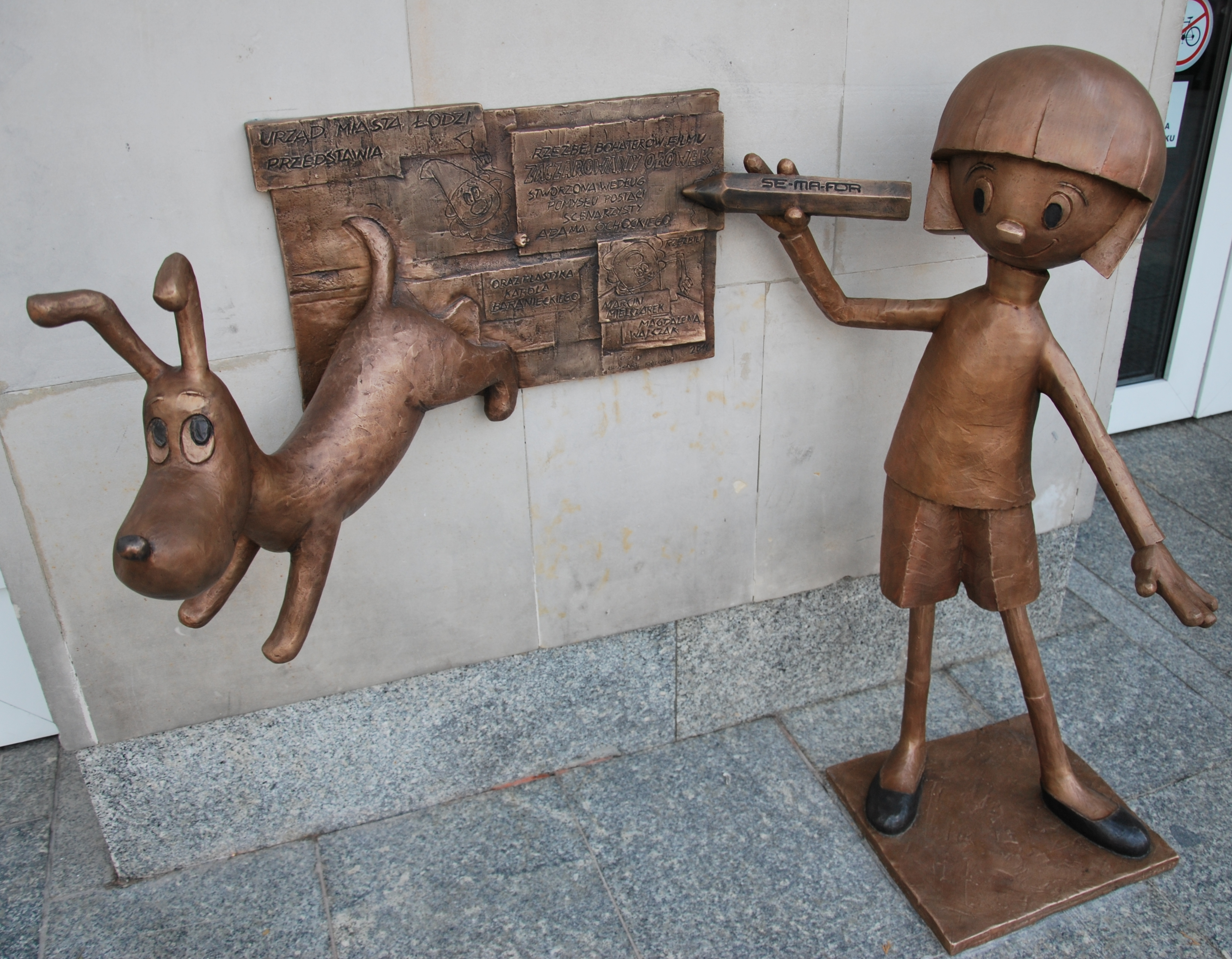 Sculpture of main characters from cartoon "Zaczarowany ołówek" ("Magic Pen"), Łódź Culture Center, sculptors - Magdalena Walczak and Marcin Mielczarek